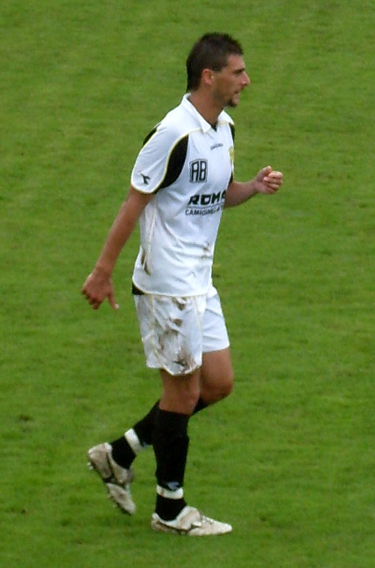 Peter Majernik in FC Brasov shirt playing in the frienly match against Forex Brasov